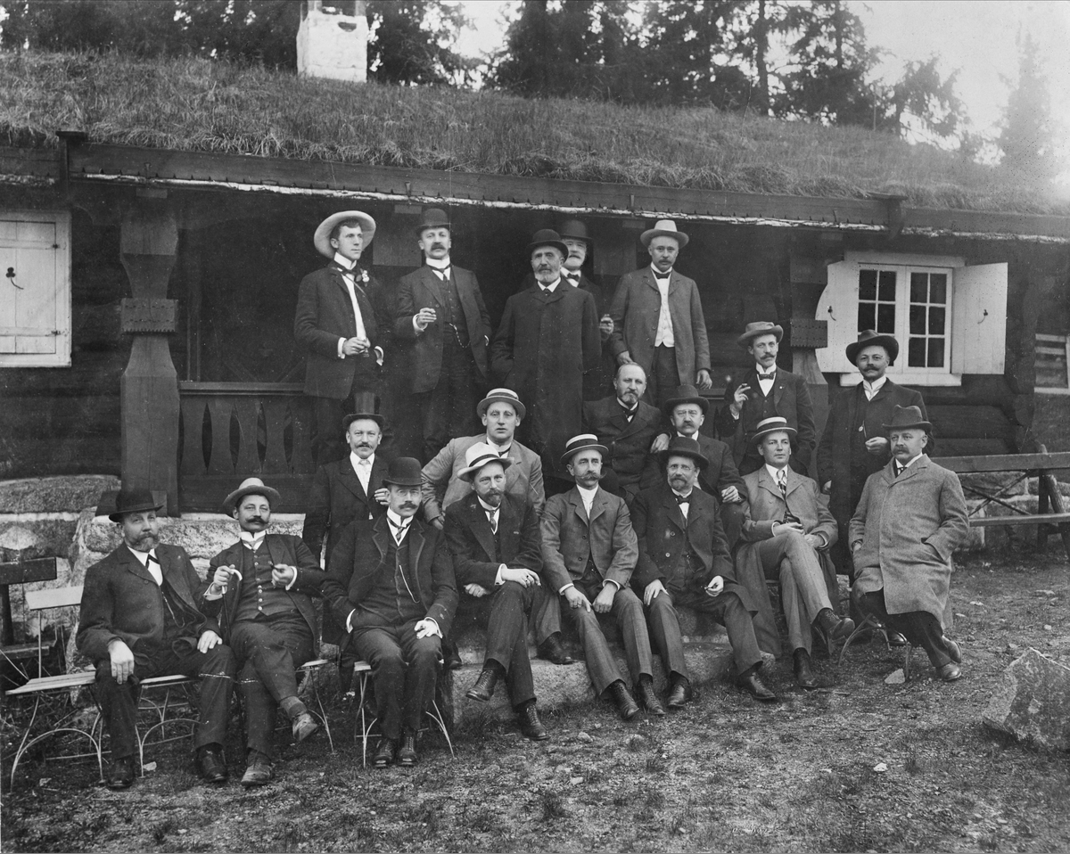 Town council of Oslo, Norway. Photo from 1908 at the Frognerseteren ski lodge. Back row (from left): P. Egede-Nissen, Olaf Berg, H.E. Berner, Sofus Arctander, G. Christiansen. Middle row (from left): Stewrud, A. Frisch, Eugen Karl Holtan, Carlsen, Jacob Vilhelm Rode Heiberg, Jacob Høe. Front row (from left): Ole Jensen Guldal, Ludvig Jensen, Lyder Nicolaysen, William Marin Nygaard, Axel Pettersen, Ole Johan Hoversholm, Fredrik Moltke Bugge, Cathinco Bang.